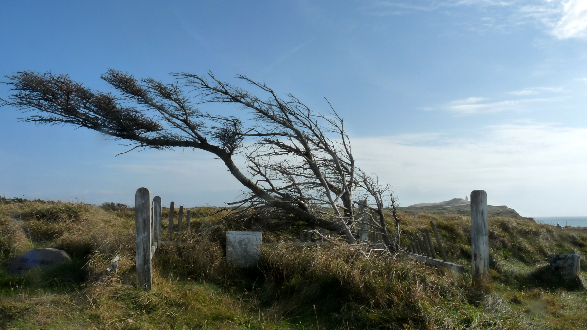 Mårup Kirke graveyard, view southwards